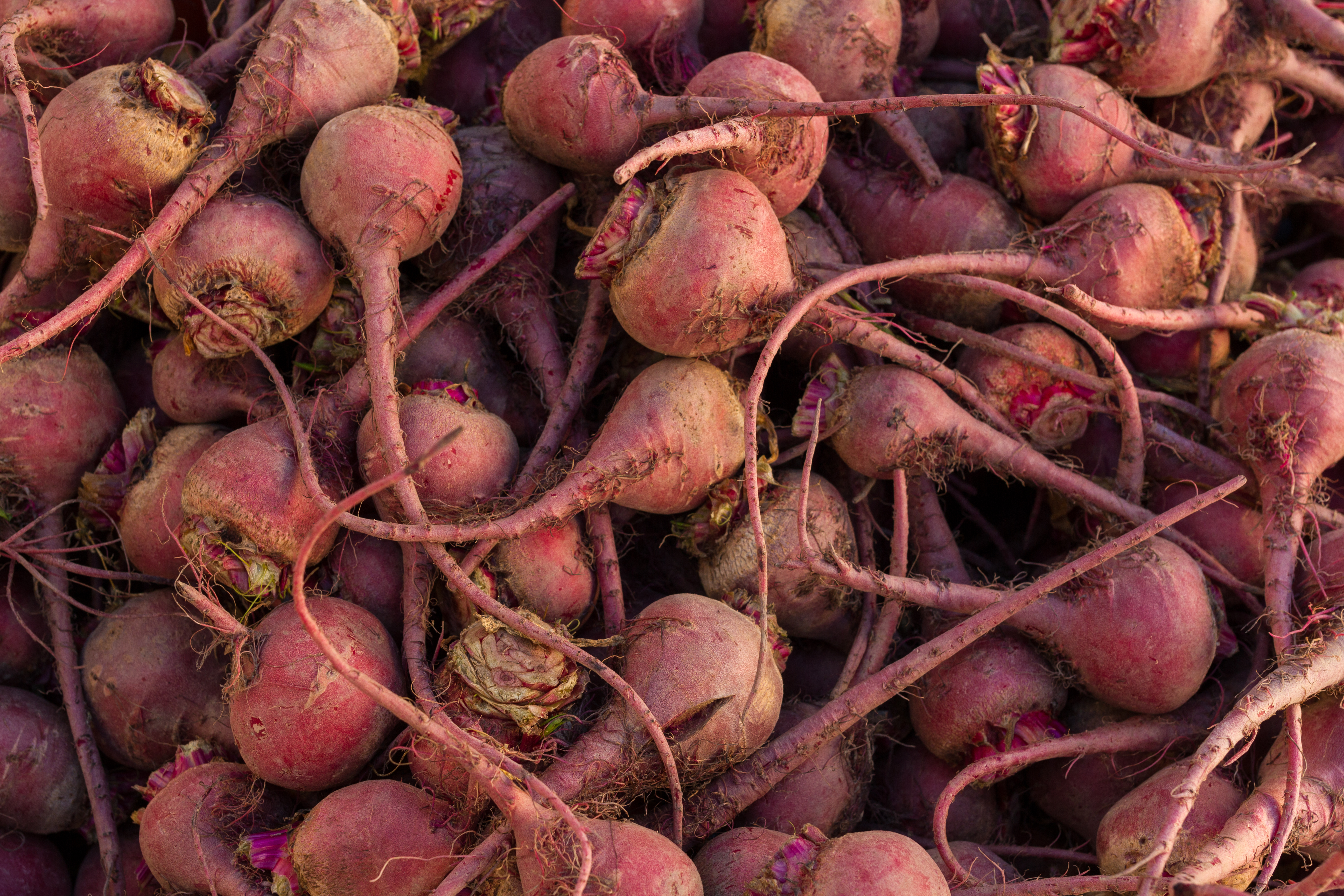 Beets (Beta vulgaris) at the Fort Mason farmers market in San Francisco.